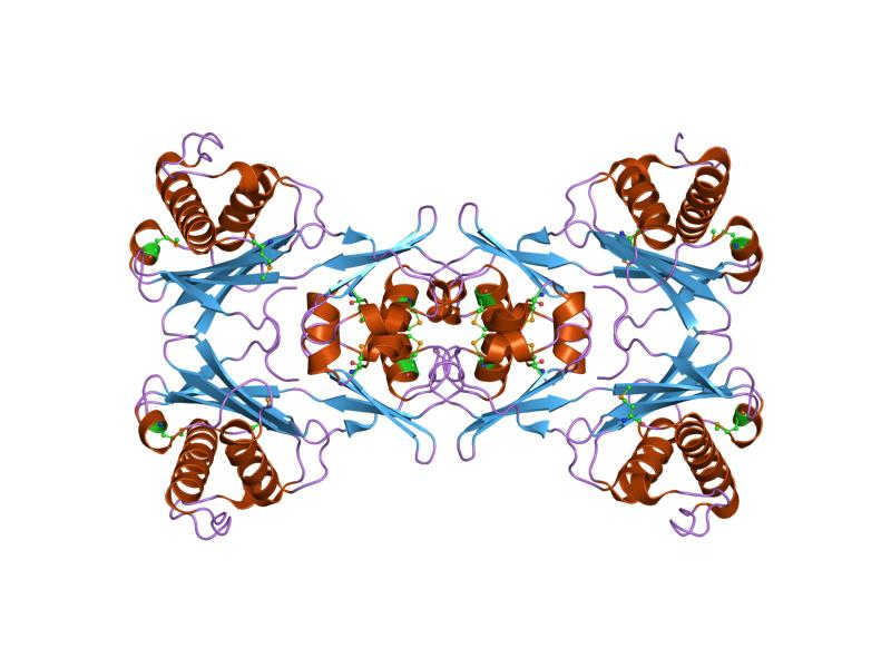 Cartoon representation of the molecular structure of protein registered with 1zq7 code.